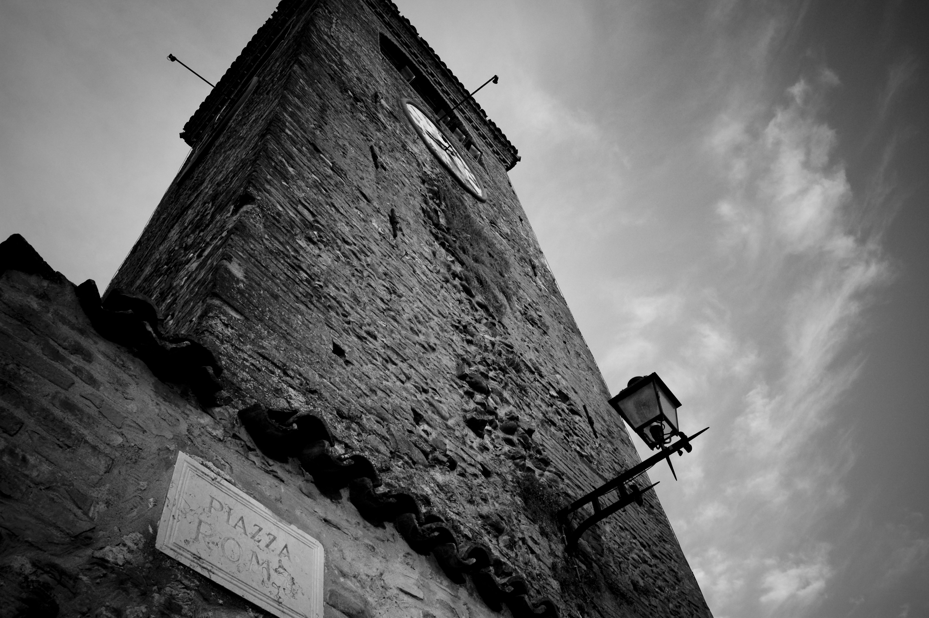 The Torre dell'Orologio in Piazza Roma.